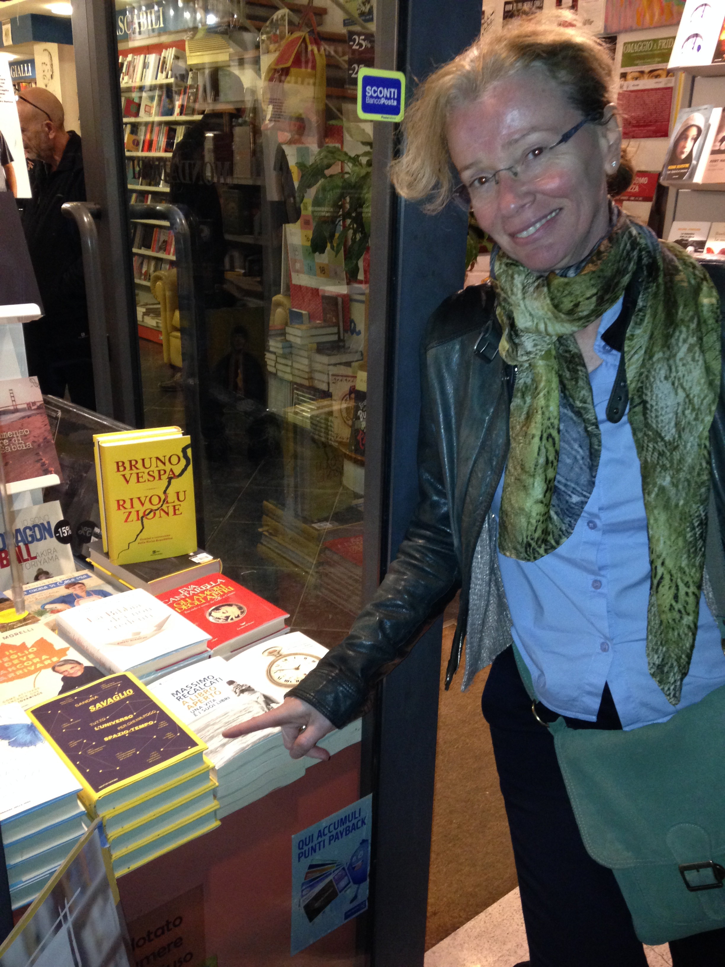 Shopwindow of Mondadori bookstore in Cosenza. I'm pointing to my book on popular science dedicated to Astrophysics. Photo taken by Uta Grothkopf in November 2018.